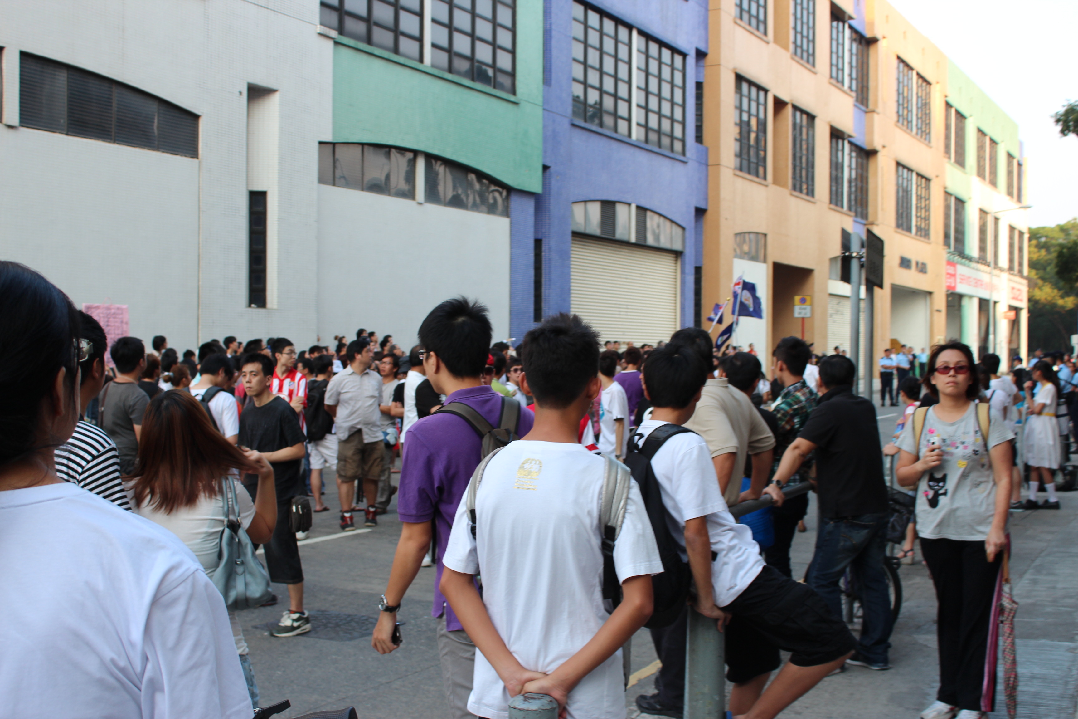 Protesters gathering outside Advanced Technology Center, a hot spot for distributing smuggled goods.中文（香港）: 示威者聚集在晉科中心外